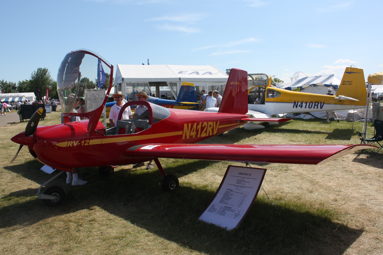 Van Aircraft RV-12 (N412RV)